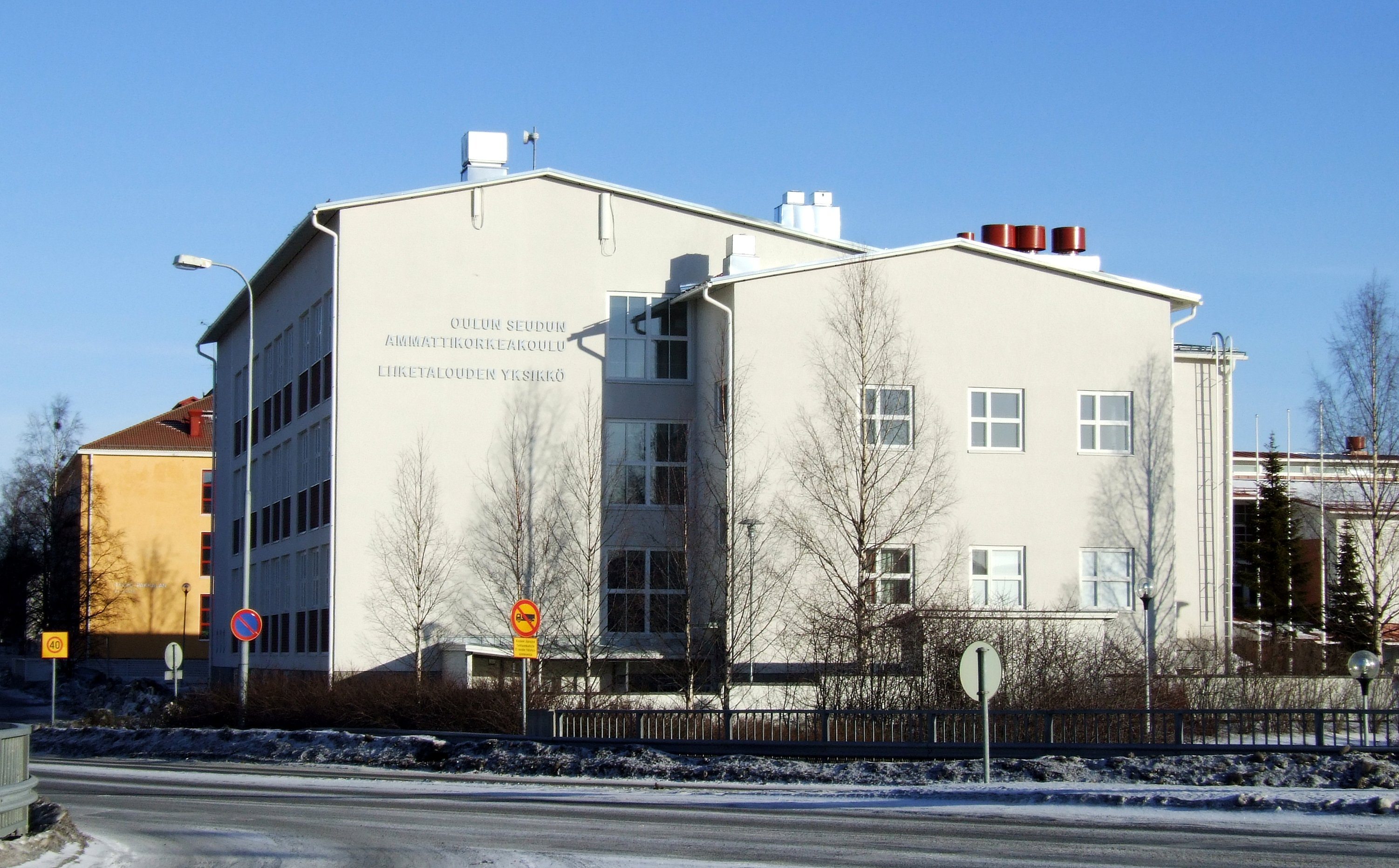 The building of the Oulu University of Applied Sciences, School of Business and Information Management in Oulu, Finland